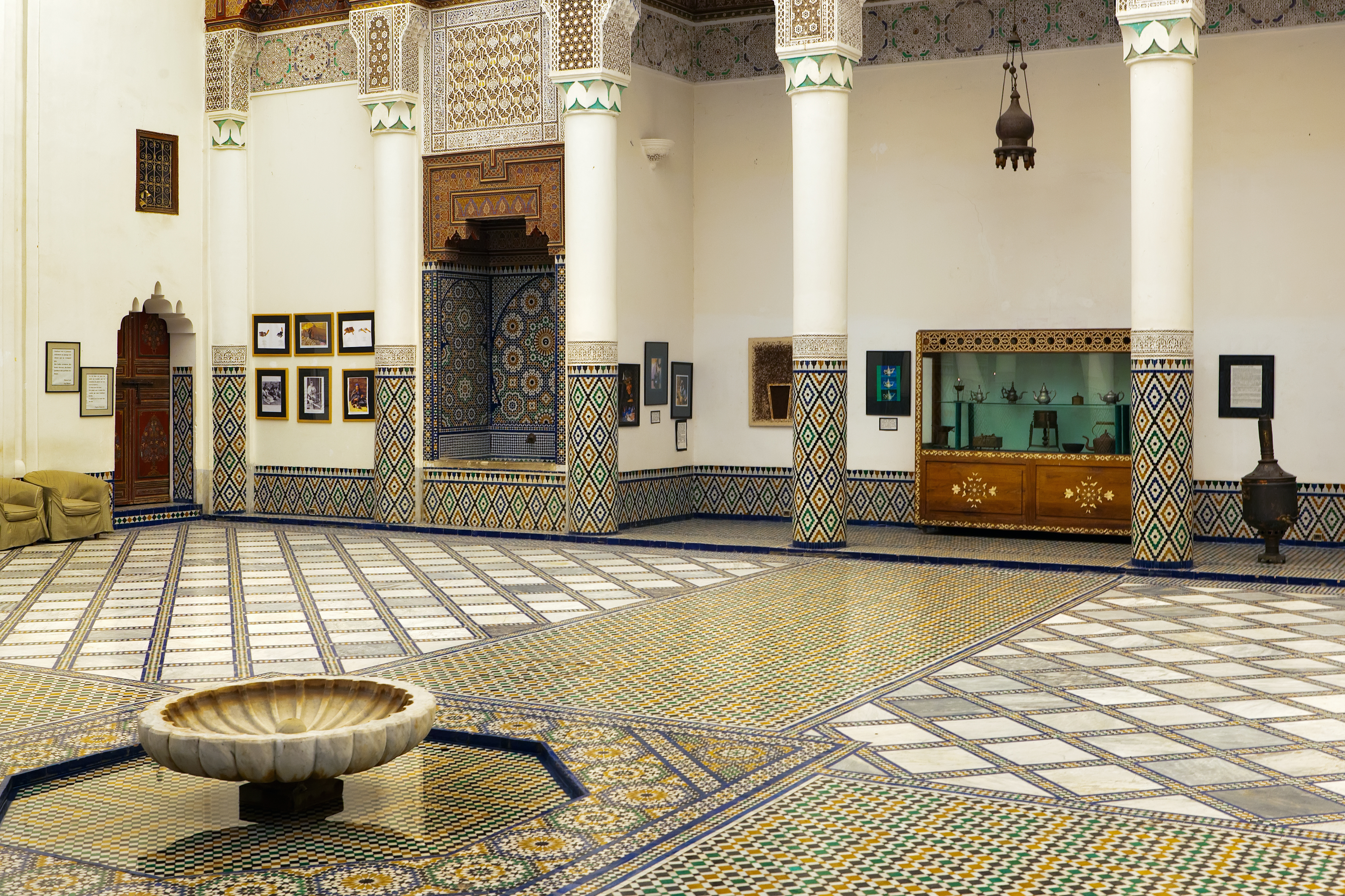 Photo was taken inside Musée Marrakech, Marrakech, Morocco